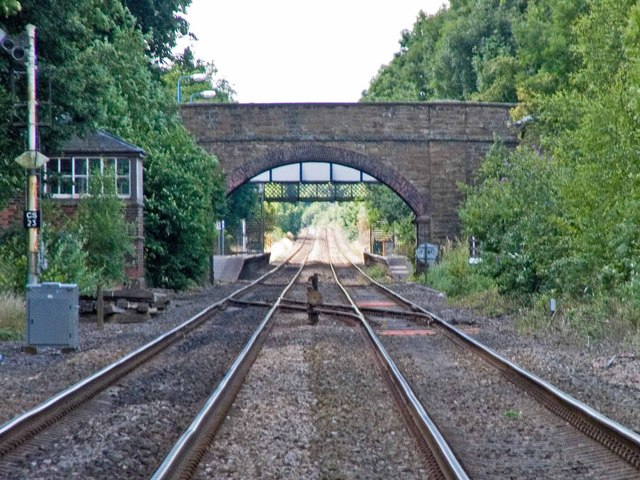 Signal Box, platform, cross-over, bridge Look and listen before you cross the line. Trains run on Sundays, too.